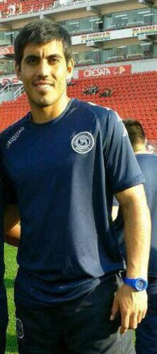 Pucheta with Independiente Rivadavia.